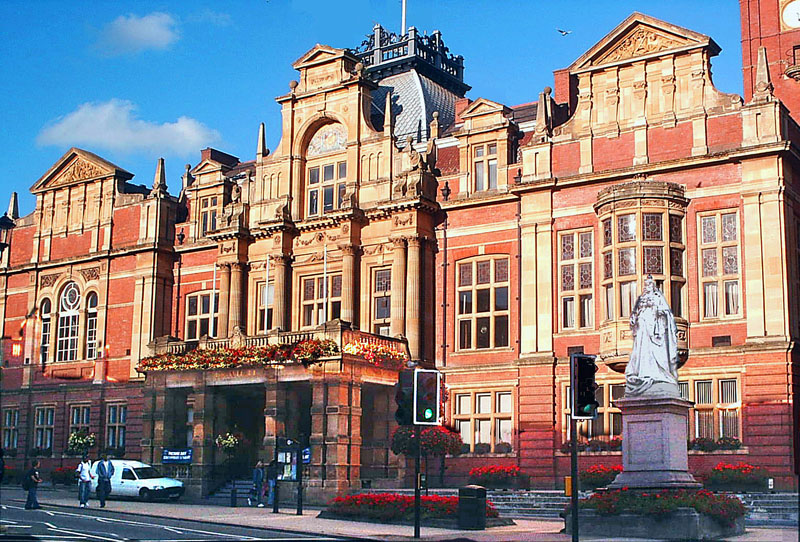 The town hall of Leamington Spa, opened in 1884. It is the headquarters of Warwick District Council. The statue is of Queen Victoria.